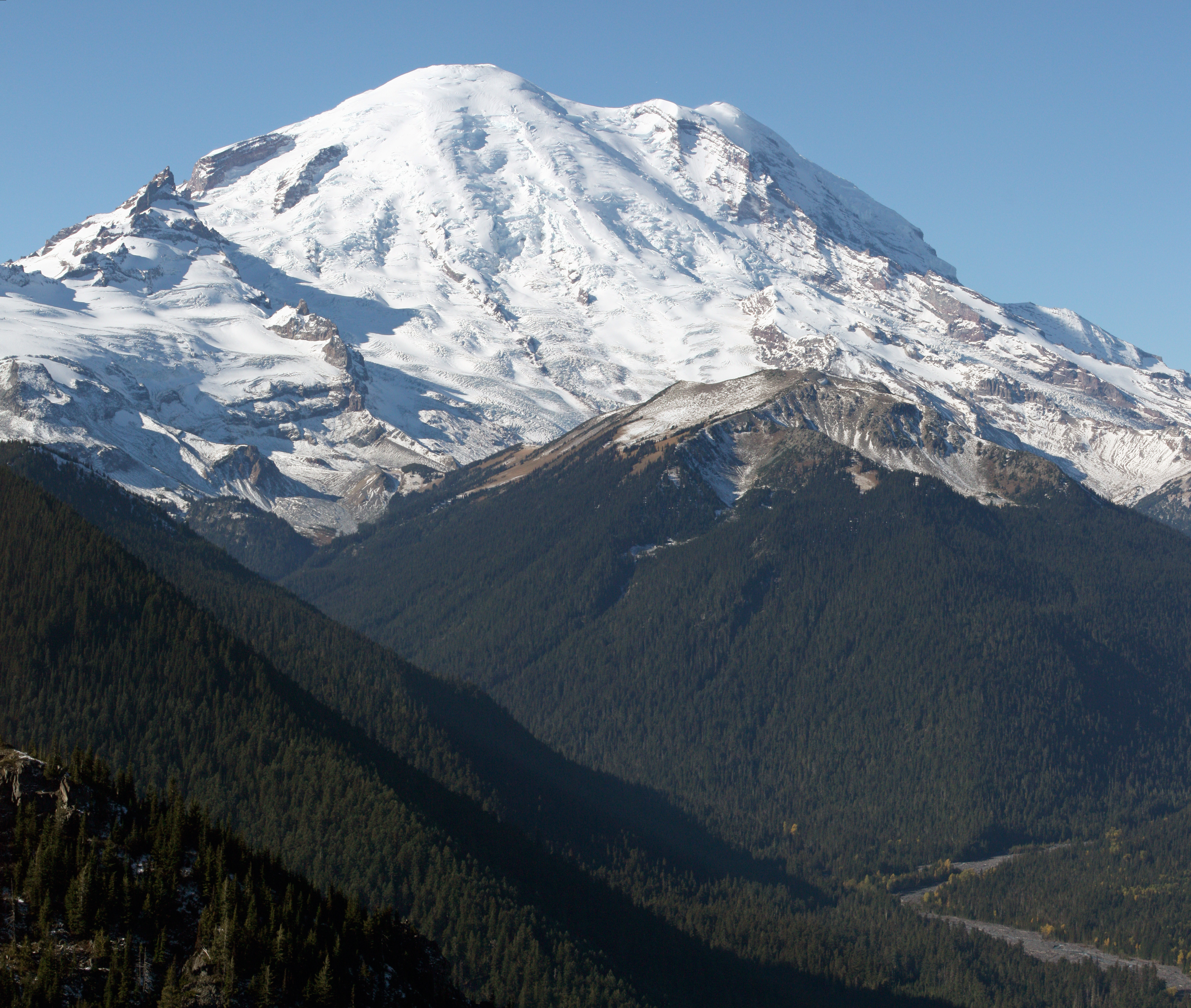 Mount Rainier with its main summit, Columbia Crest (14410 feet) at the center. Emmons Glacier covers most of the visible flank of the mountain. Ingraham Glacier (left) is between Gibraltar Rock (12660 feet) high on the left skyline and Disappointment Cleaver. Left of Gibraltar Rock is sharp pointed Little Tahoma (11138 feet) with Frying Pan Glacier on its flank. It is the source of Frying Pan Creek in the valley left of forested and rounded Goat Island Mountain, in front of the Emmons Glacier. Liberty Cap (14112 feet) is visible on the right center skyline behind Russell Cliff. Curtis Ridge descends to the right from Russell Cliff. Winthrop Glacier flows right below Curtis Ridge and behind shallow Steamboat Prow (9680 feet) with the small Inter Glacier on its northeast face. The White River comes from the Emmons Glacier and flows around the right side of Goat Island Mountain in the watercourse visible below right.